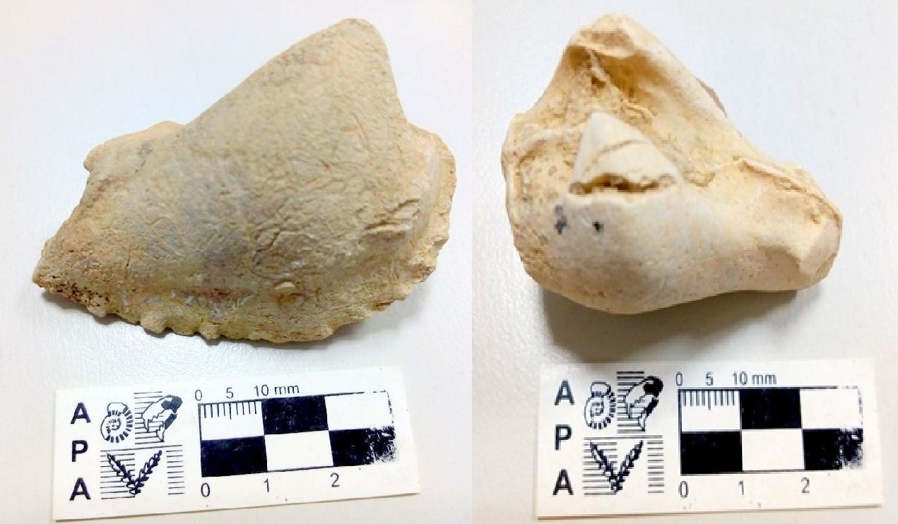 Fossil of Arca Ameghinorum of the Roca Formation, Río Negro, Argentina